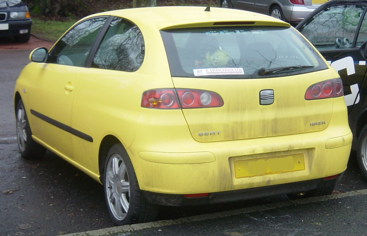 created by Mazurka